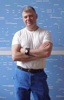 Photo Keith Milow